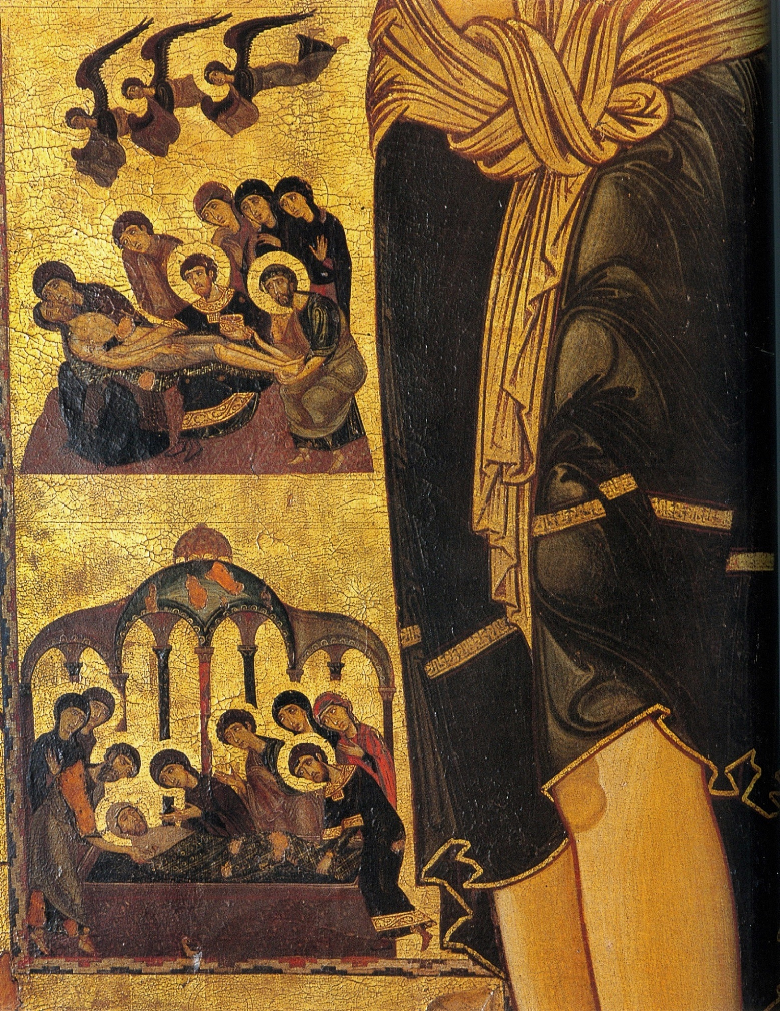 Painted cross. 1200–1210, 298 × 233 cm, detail. Pisa, National Museum of San Matteo.